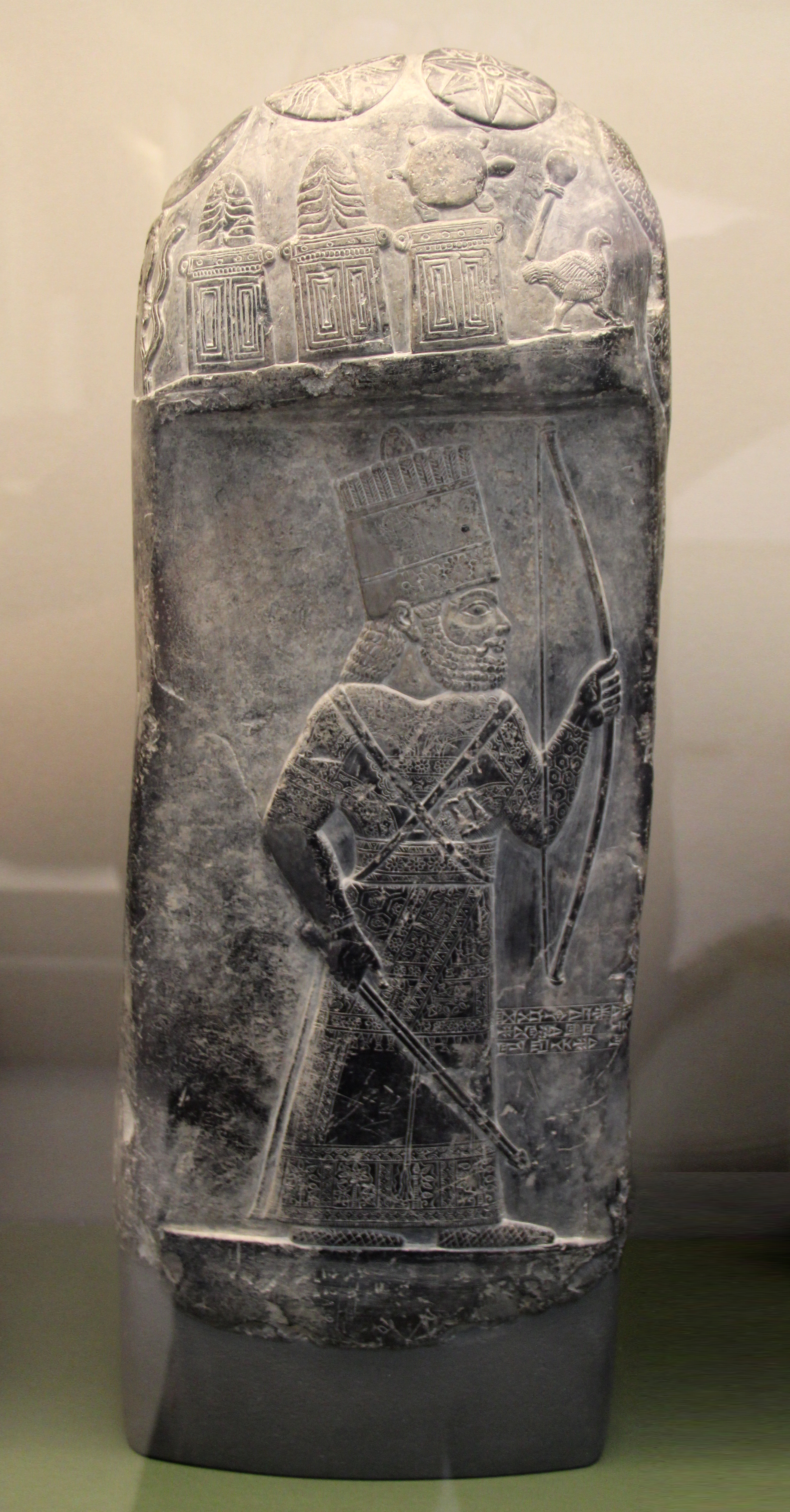 Black Limestone Kudurru (Boundary Stone) of Marduk-nadin-akhe, 1099-1082 BC Mesopotamia 1500-539 BC Gallery, British Museum, London, England, UK. Complete indexed photo collection at .